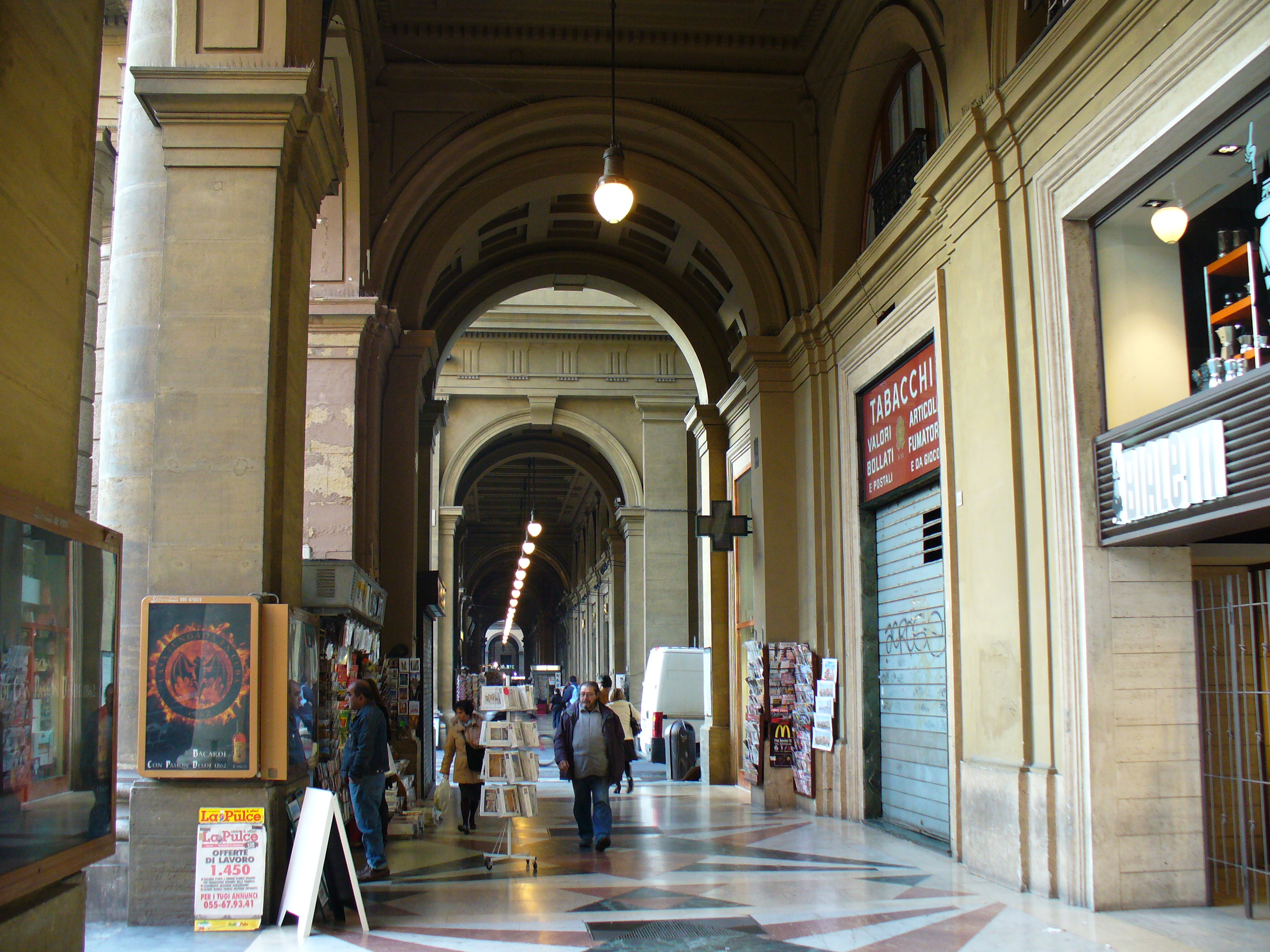 Piazza della Repubblica in Florence portici